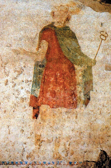 Tomb of the Judgement Hermes Psyhopompos